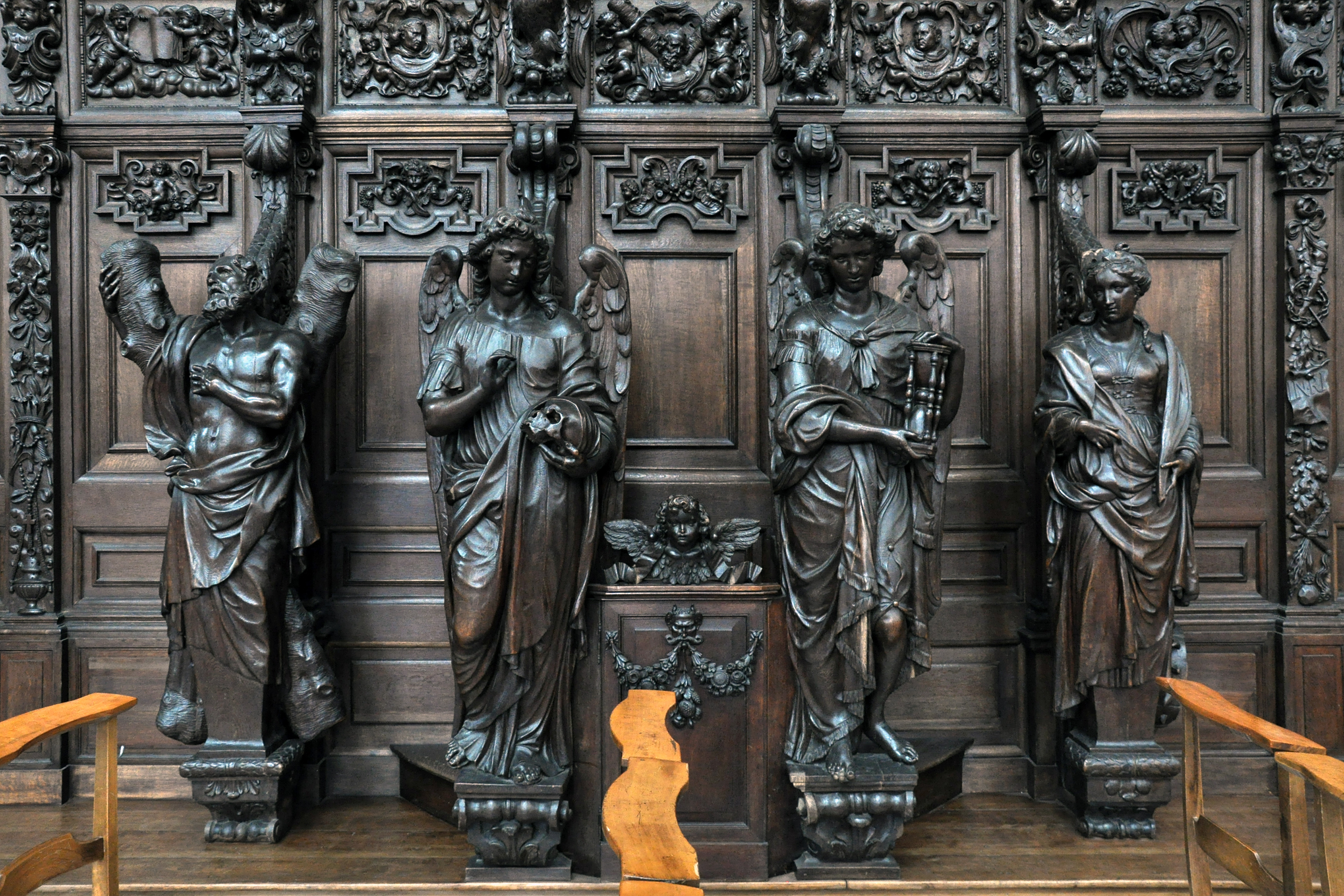 A confessional in Sint-Pauluskerk,in Antwerp.Wood carving by Pieter Verbrugghen I, 17th century.